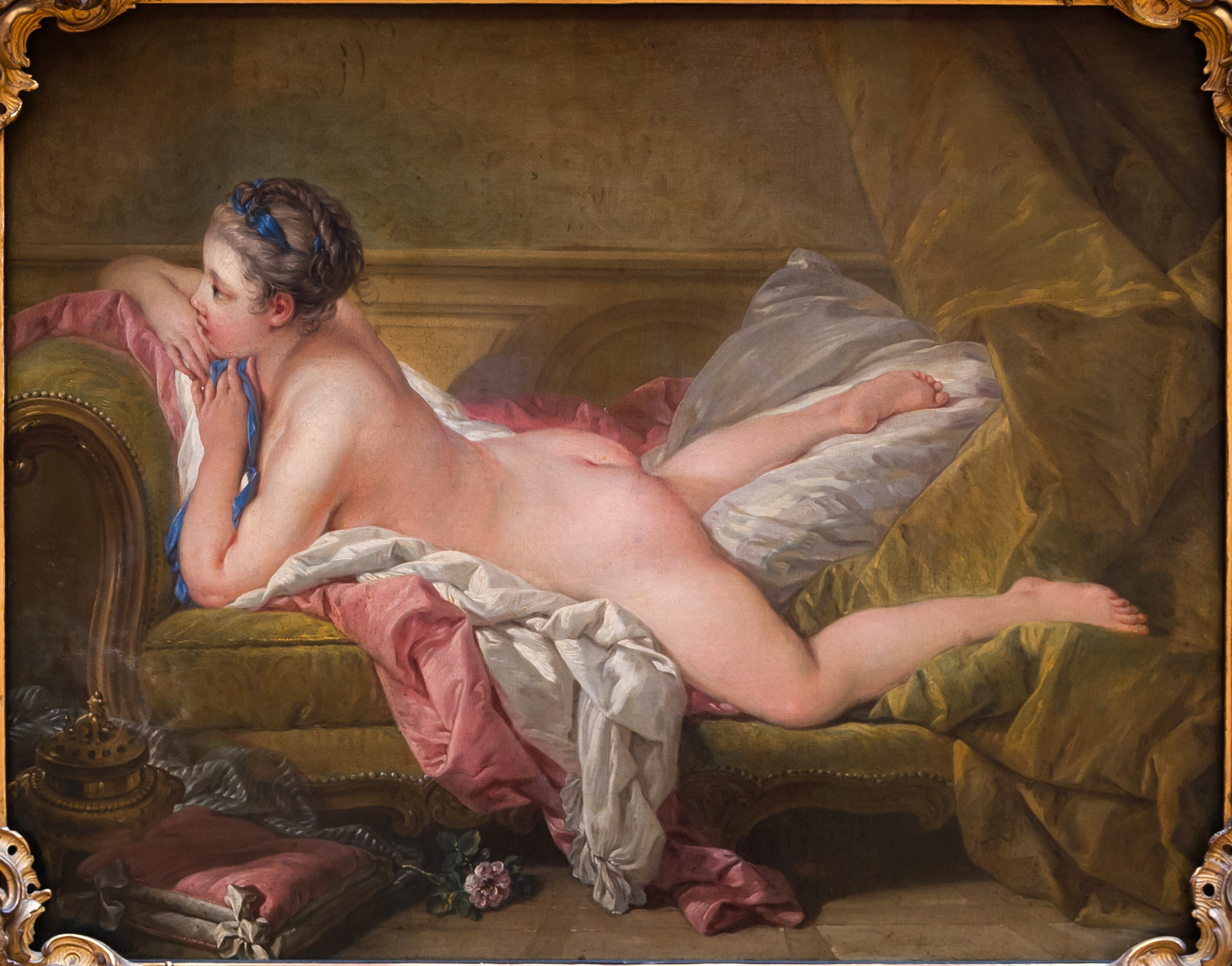 Probably a portrait of Marie-Louise O'Murphy (21 October 1737 – 11 December 1814), mistress to Louis XV of France.